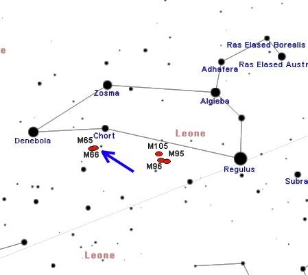 Map of M65